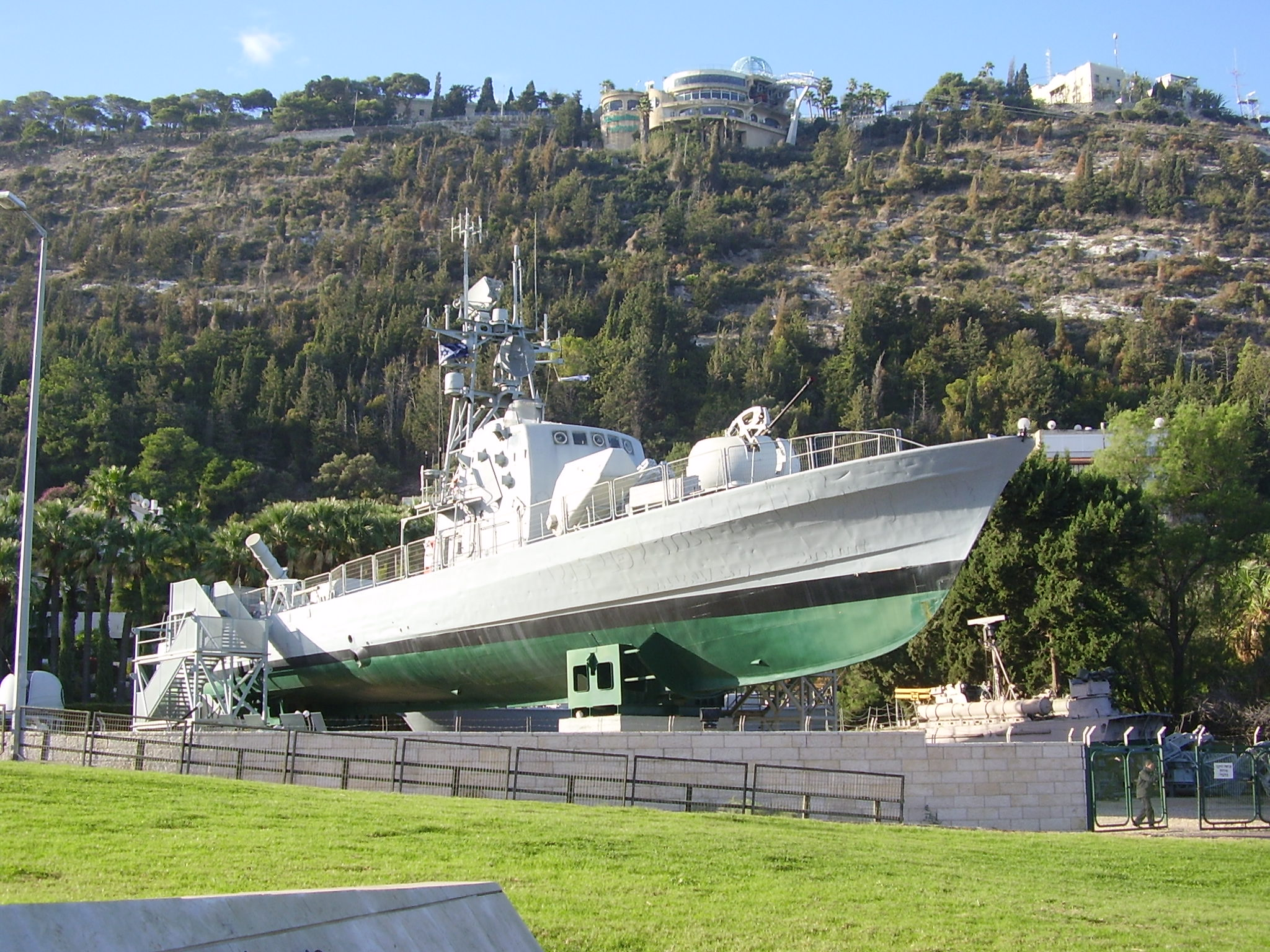 missile ship \"mivtakh\"